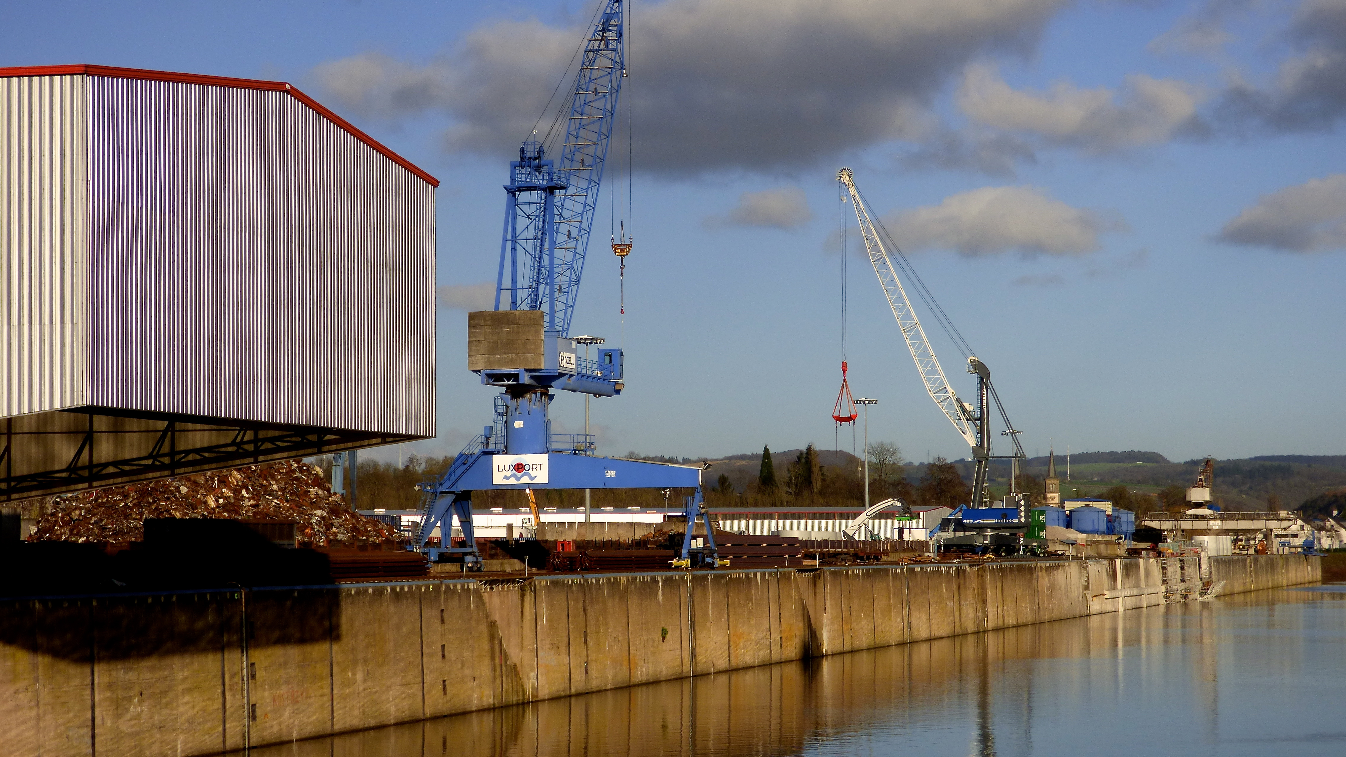 QUAY LUXPORT Mertert, river Moselle, LU